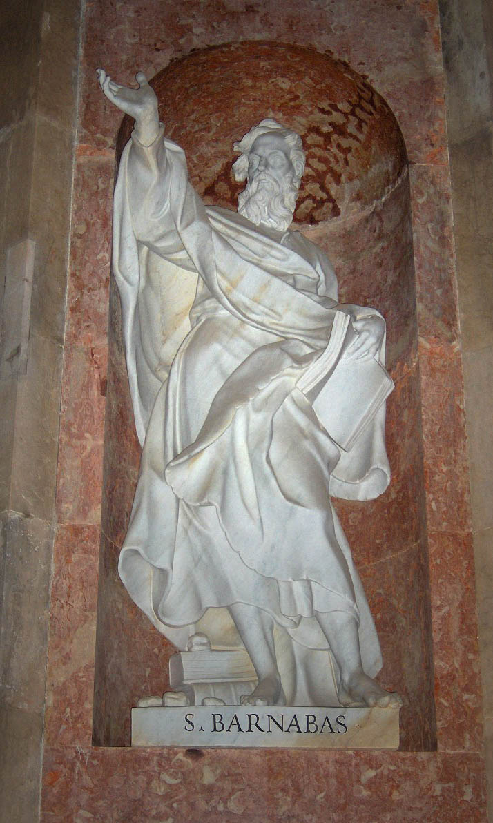 Statue of Saint Barnabas; church in the Mafra National Palace; Mafra, Portugal